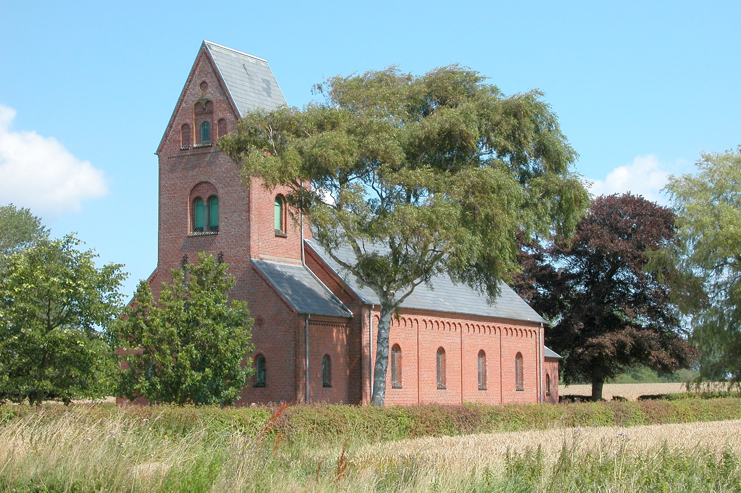 Ommel Kirke, Ærø, Denmark